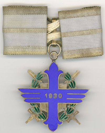 Order of the Aeronautical Virtue, Commander, 1930 (reverse)